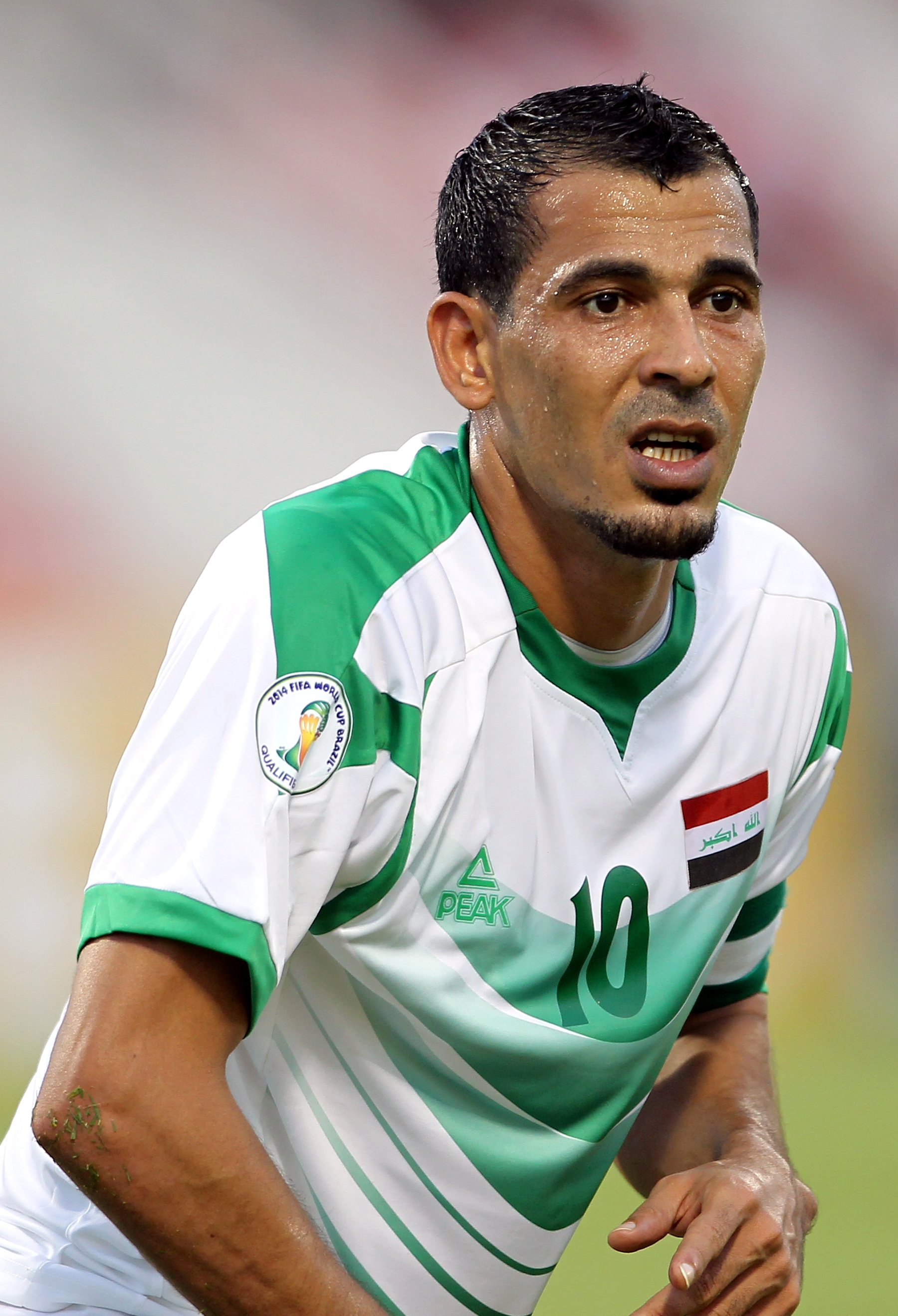 Iraq football team captain Younis Mahmoud during their 2014 FIFA World Cup qualifying match against Oman.